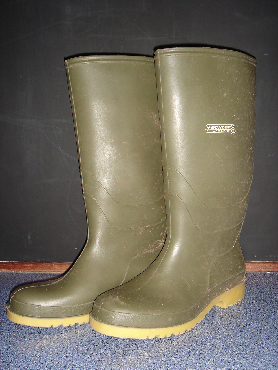 Boots from the mark Dunlop.